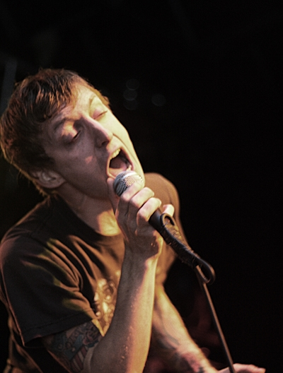 From Autumn to Ashes [cropped to remove tag]